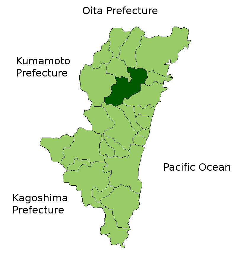 Location Map of Misato in Miyazaki Prefecture, Japan